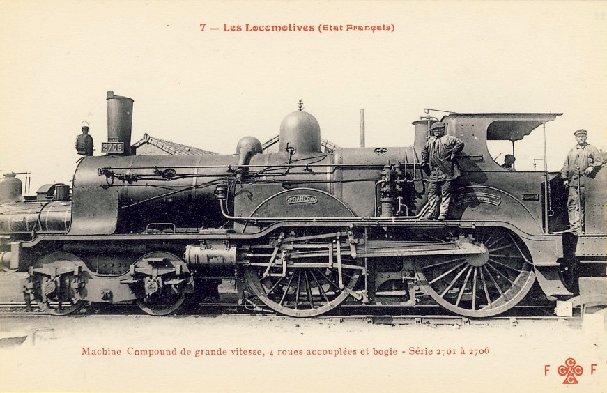 Steam locomotive État 2706 of French State class 2701 to 2706, 1897.